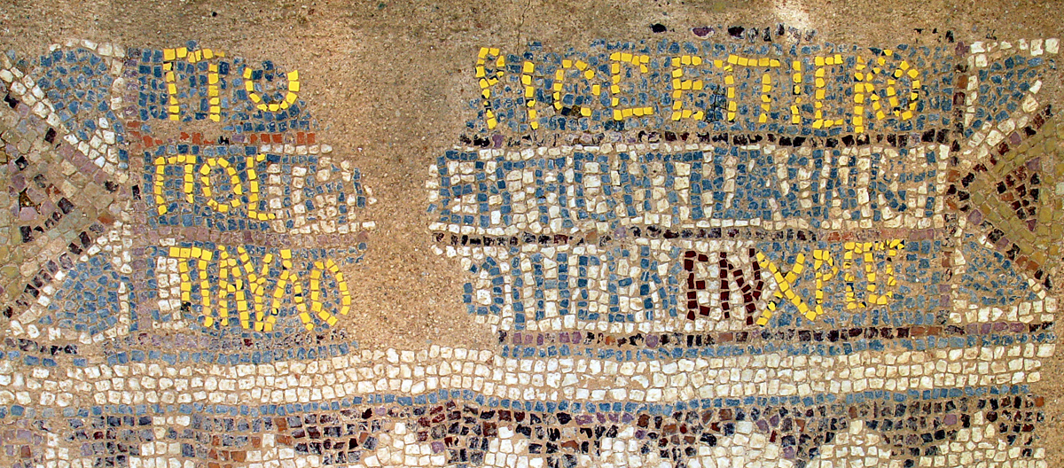 Philippi, inscription of the bishop Porphyrios on the floor of Paul's Basilica : it dates the church ca. 343, the date of the Serdica council, which Porphyrios attended to.